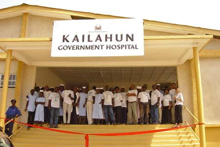 The opening of Kailahun Government Hospital, Sierra Leone, at its reopening after being rebuilt because of damage during the Sierra Leone civil war.